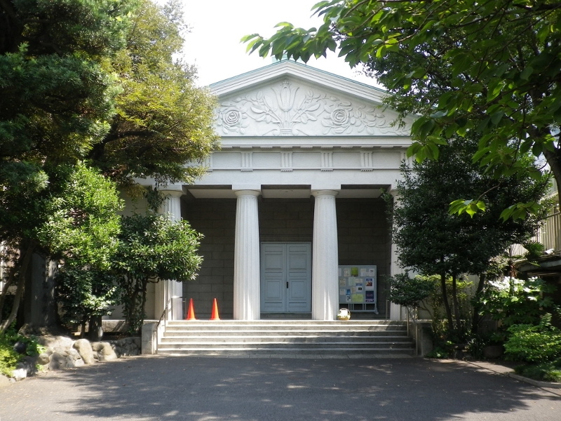 Roman Catholic Church of St. Joseph, Tsukiji Parish, Archdiocese of Tokyo